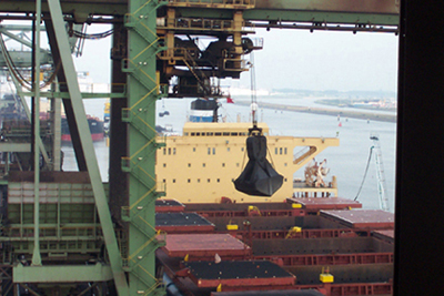 Bulk carrier being unloaded at a Missisippihaven Rotterdam.